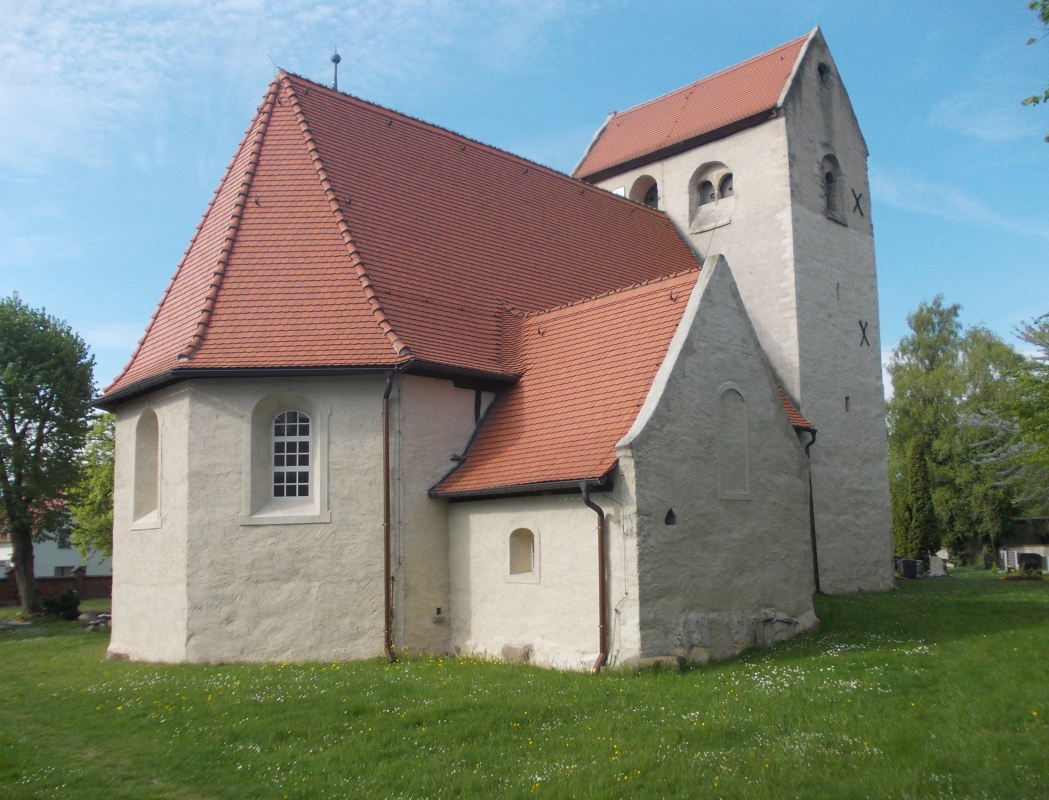 Radefeld church (Schkeuditz, Nordsachsen district, Saxony)